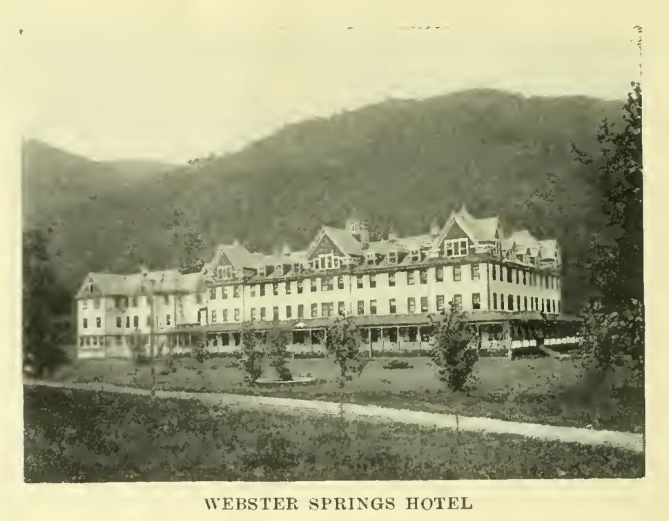 Photograph of Webster Springs Hotel in Webster Springs, WV, that appeared in Baltimore & Ohio Railroad Company's Book of the Royal Blue, April 1909, Vol. 12 No. 07, Page 14